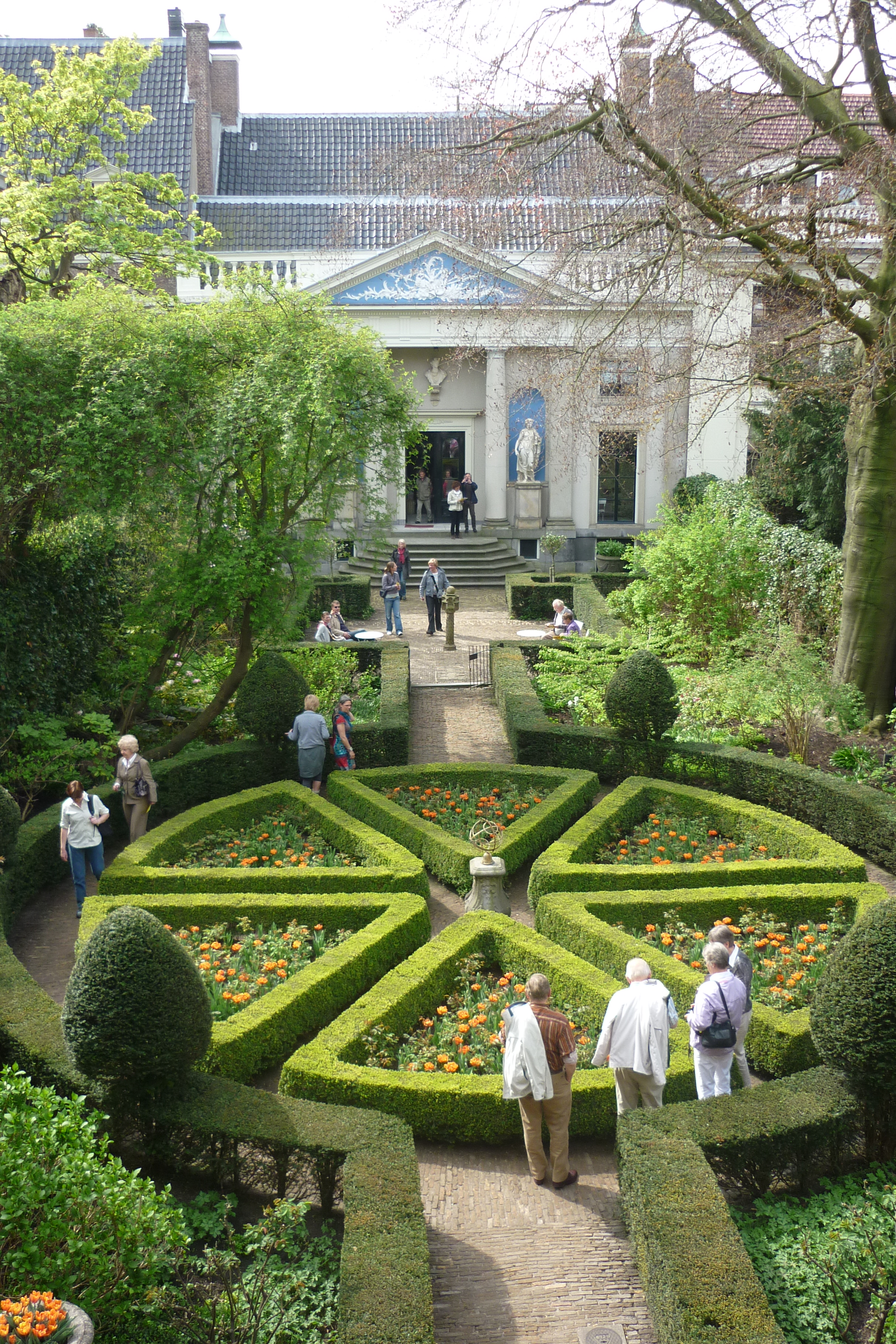 garden of Museum Van Loon in Amsterdam